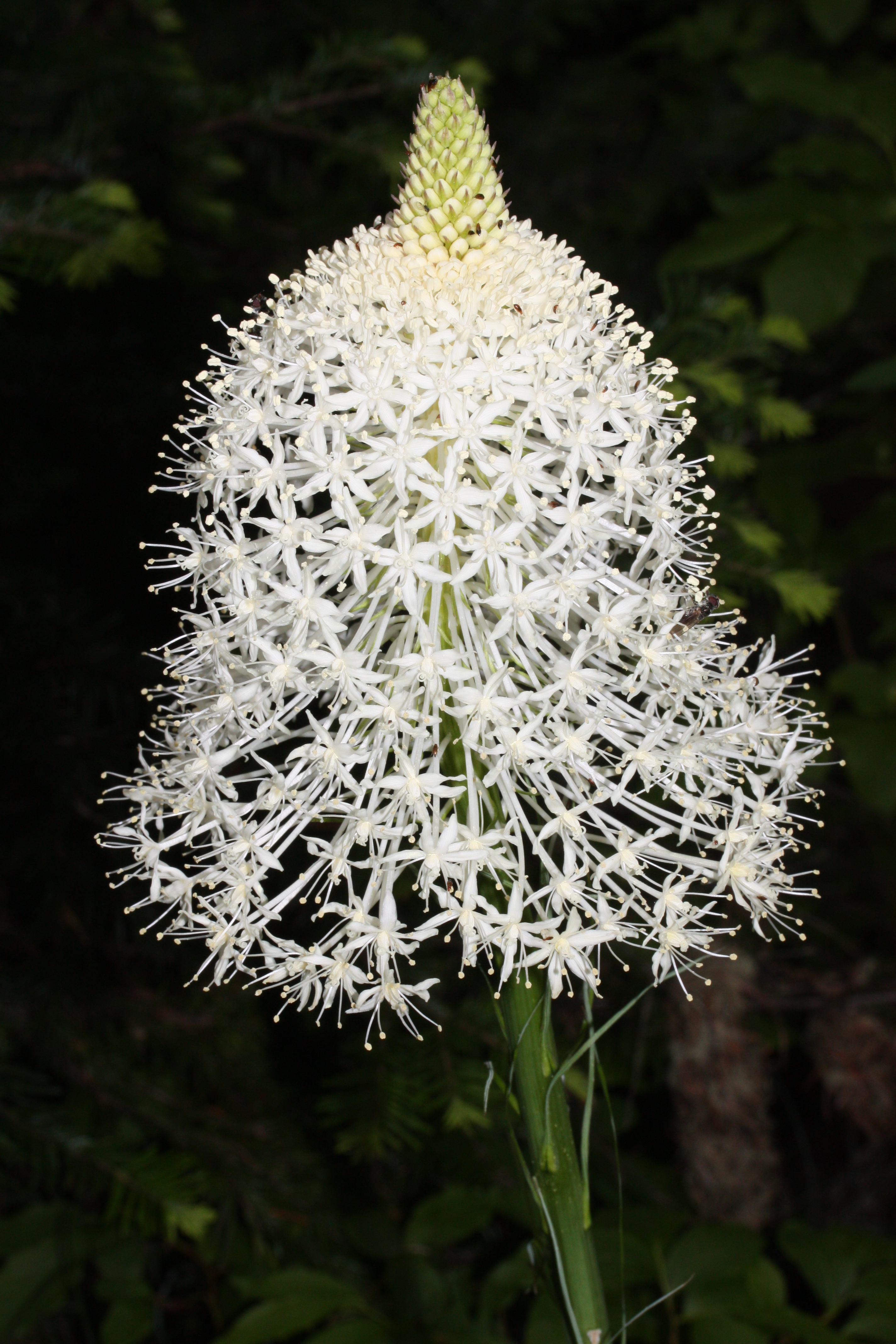 Common Beargrass, Western Turkeybeard